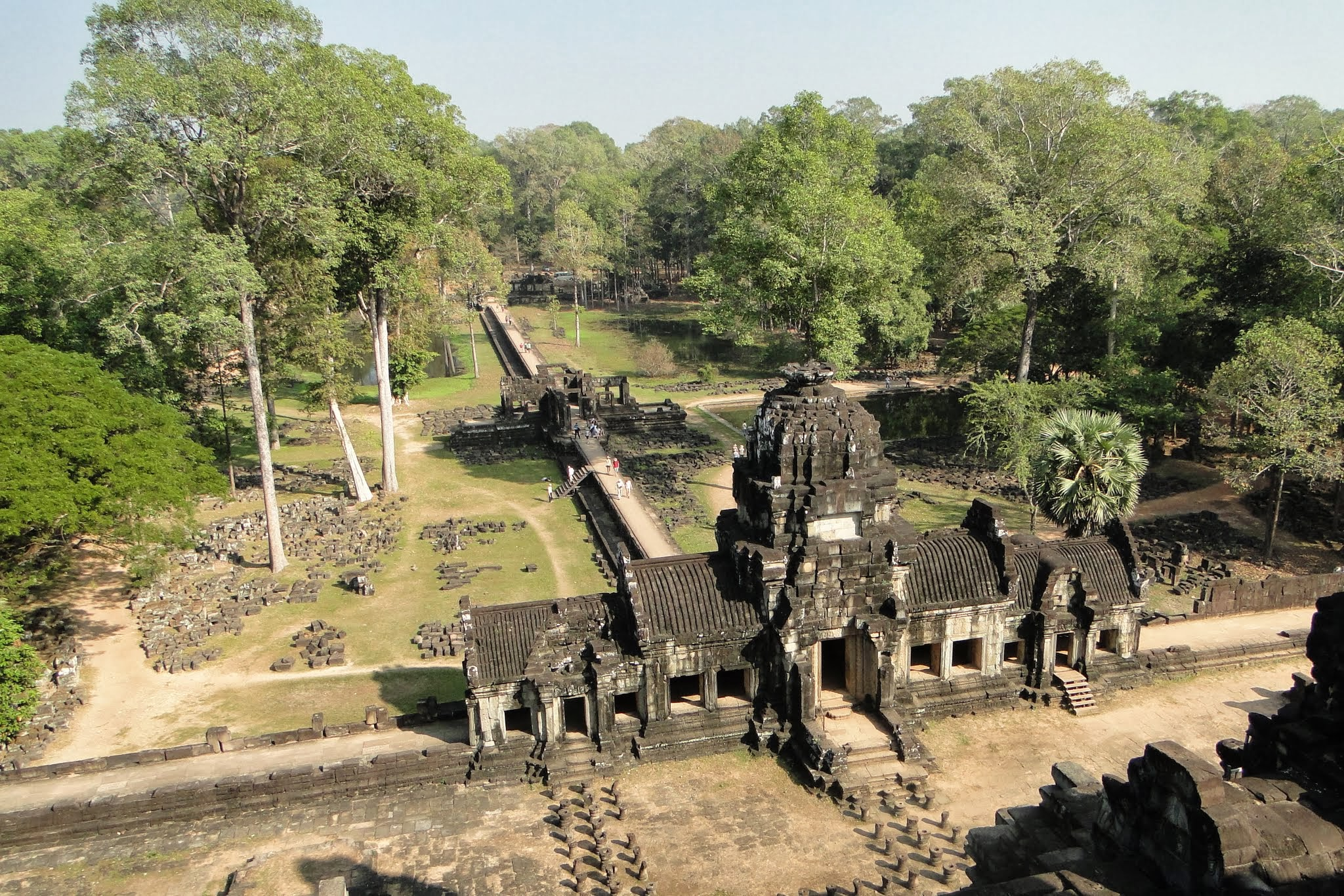 Baphuon